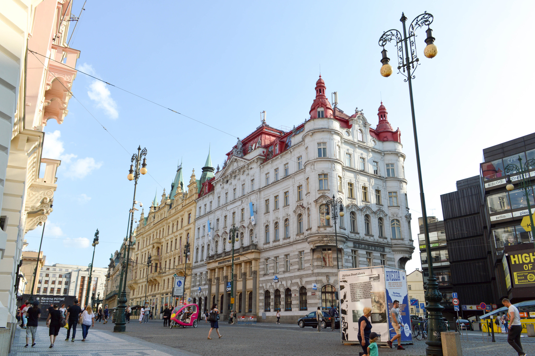 500px provided description: Central Prague [#city ,#street ,#sidewalk ,#cityscape ,#pedestrian ,#city life ,#street light ,#crosswalk ,#downtown district ,#city street]